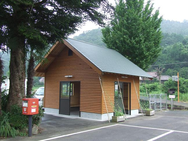 JR West Mitani Station waiting room